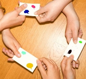 Social network for fashion and style